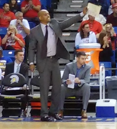 Terrence Rencher, University of New Mexico men's basketball assistant coach and former NBA basketball player, coaches against San Jose State on Jan. 23, 2016 at the Event Center in San Jose, Calif.